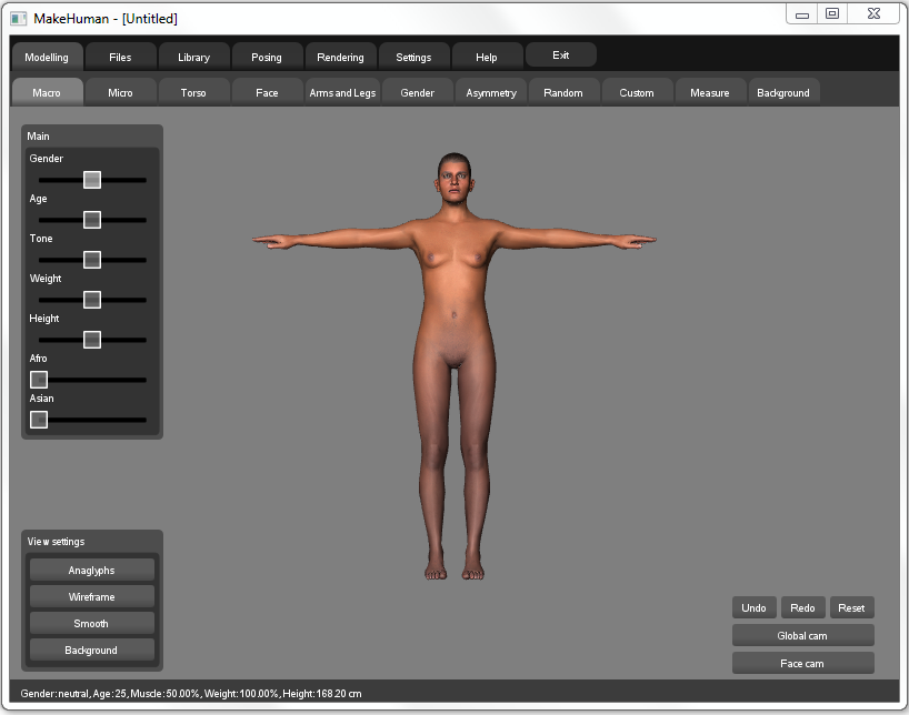 A screenshot of makehuman 1.0 alpha 7, in macro modelling mode.